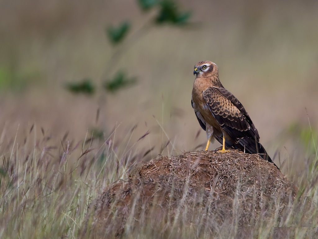 Montagu's Harrier Circus pygargus, juvenile, Bangalore India. Photograph by Subramanya CK at Bangalore, 2011 Contact